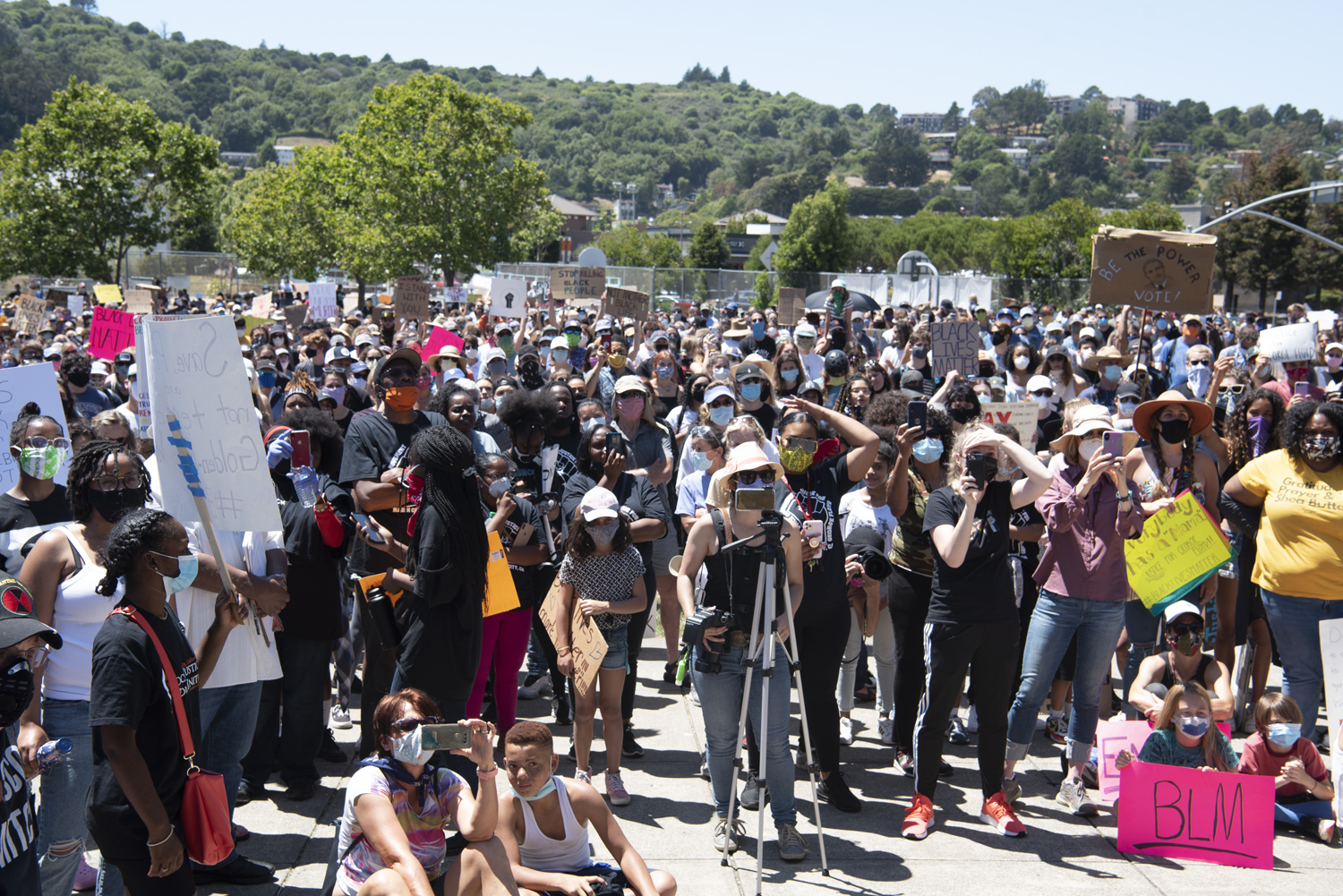 Marin City Black Lives Matter-George Floyd Protest "Its been too long that Marin county has had its knee on Marin City's neck" Marin County, California June 02, 2020 BlackLivesMatter GeorgeFloyd MarinCityProtest PoliceBrutality OurVoiceOurMovement